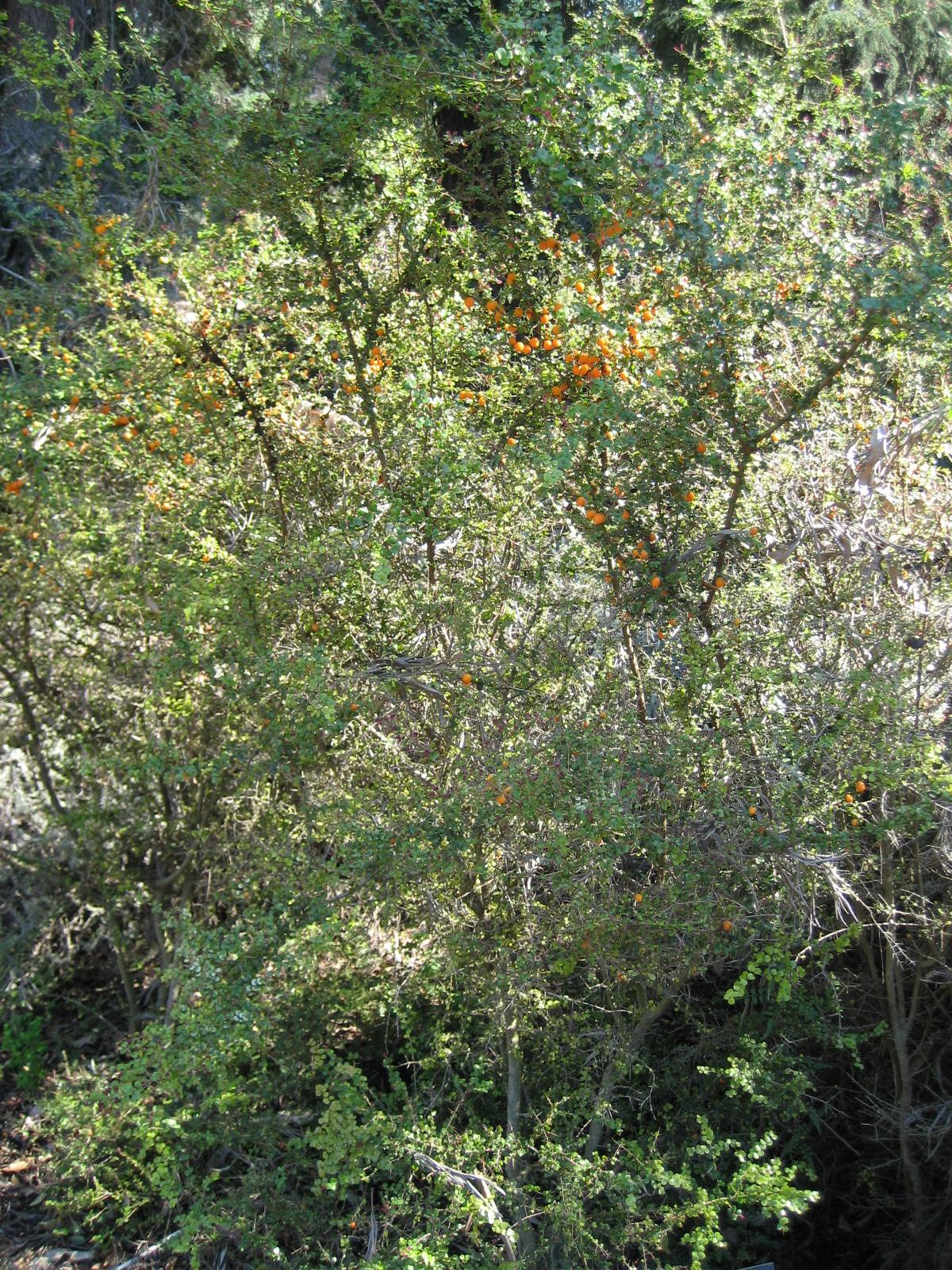 Photographed at Huntington Gardens (Los Angeles) in March